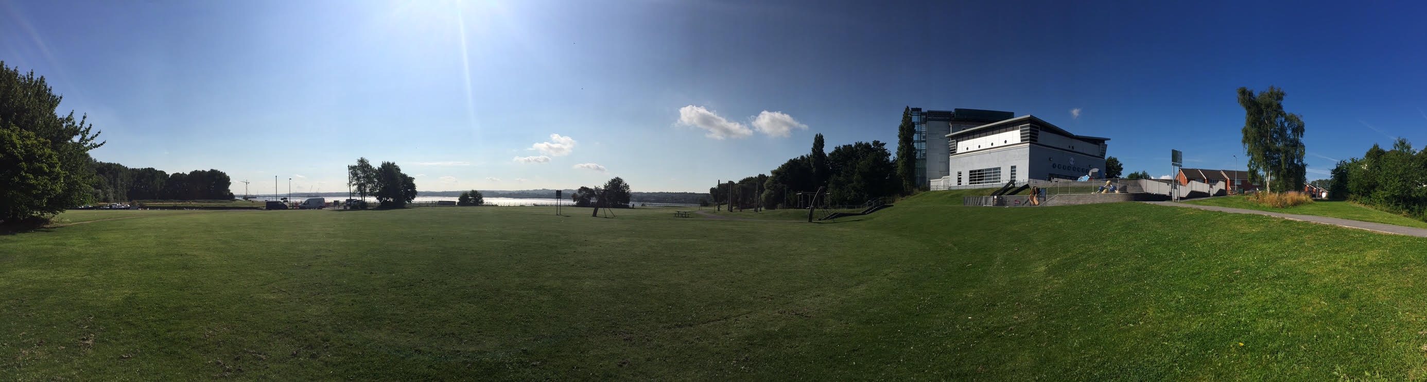 Catalyst Museum of the Chemical Industry, Widnes